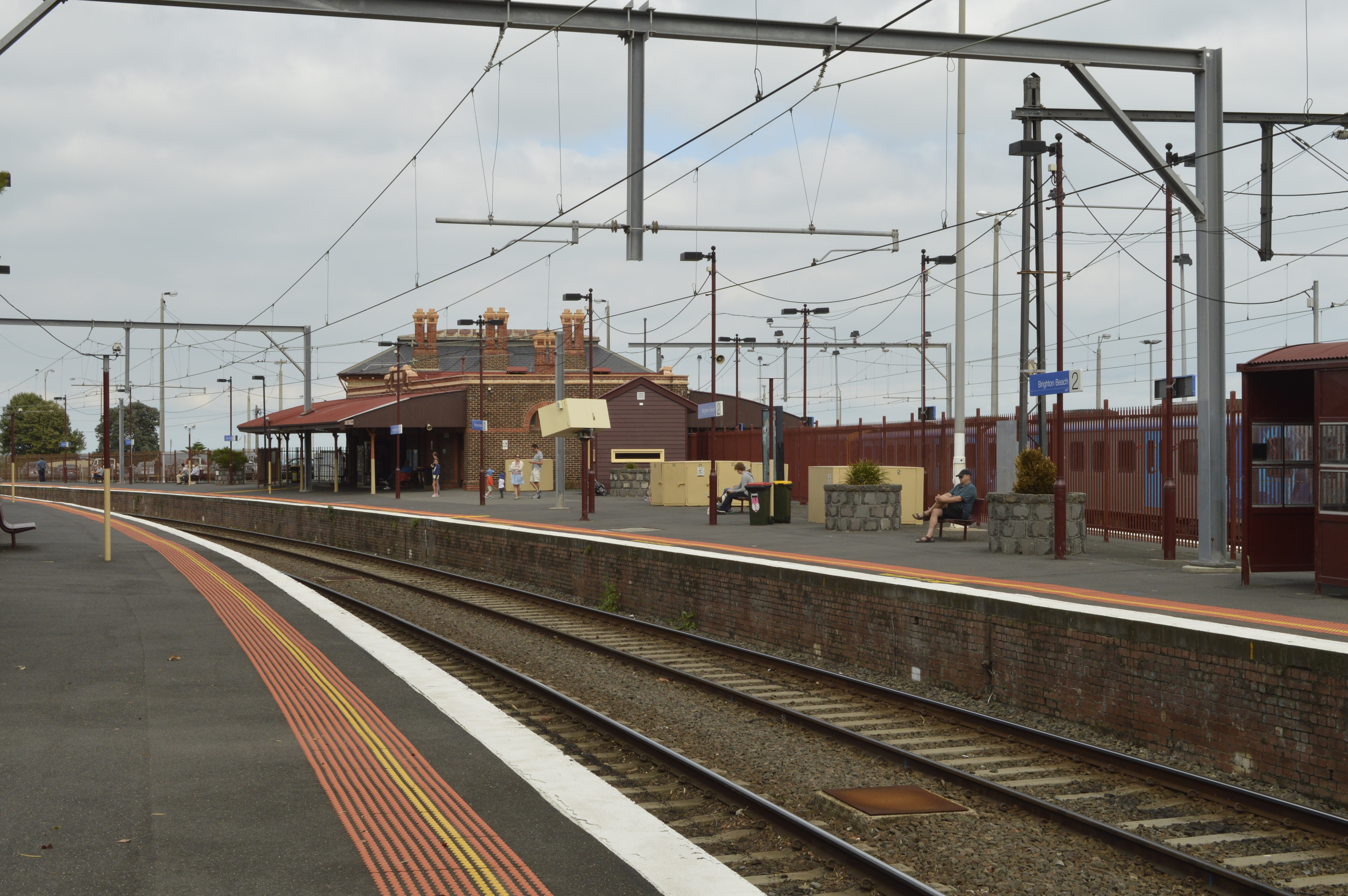 Looking in the Sandringham direction.